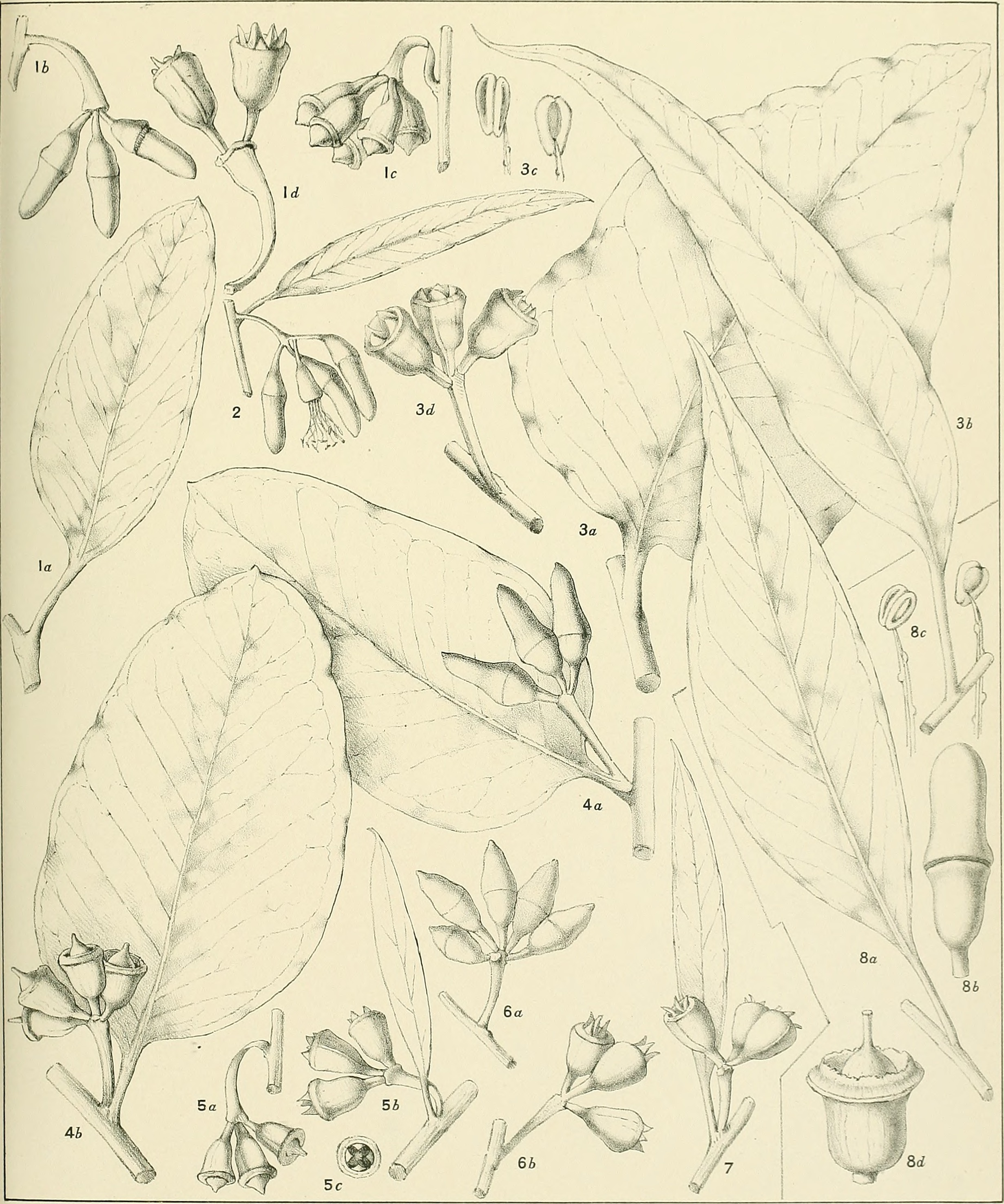 Title: A critical revision of the genus Eucalyptus Year: 1903-33. (1900s) Authors: Maiden, J. H. (Joseph Henry), 1859-1925 Subjects: Eucalyptus Publisher: Sydney, Gullick Text Appearing Before Image: Crit. Rev. Eucalyptus. Pl. 148. Text Appearing After Image: FlocKtcrn.deLel-lil-h. EUCALYPTUS OCCIDENTALIS Endl. (See also Plates 149 and 150.) (No. 8 is E. agnata Domin, included in it.)